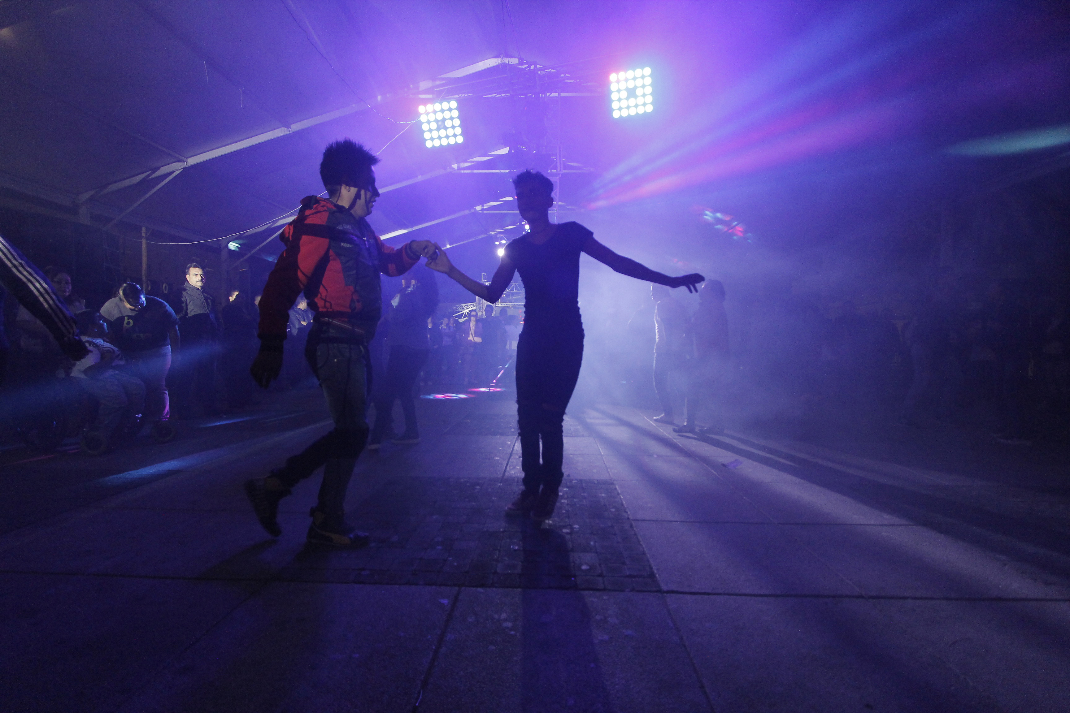 Jóvenes se divierten durante un baile sonidero callejero durante los festejos previos a semana santa en la colonia Martín Carrera en la Ciudad de México.